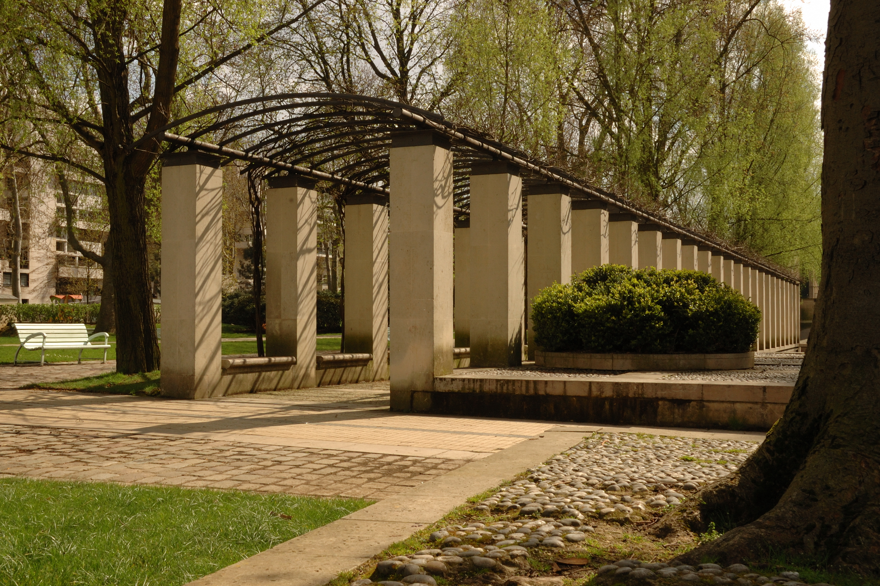 Spring in Bercy park. Paris, France.